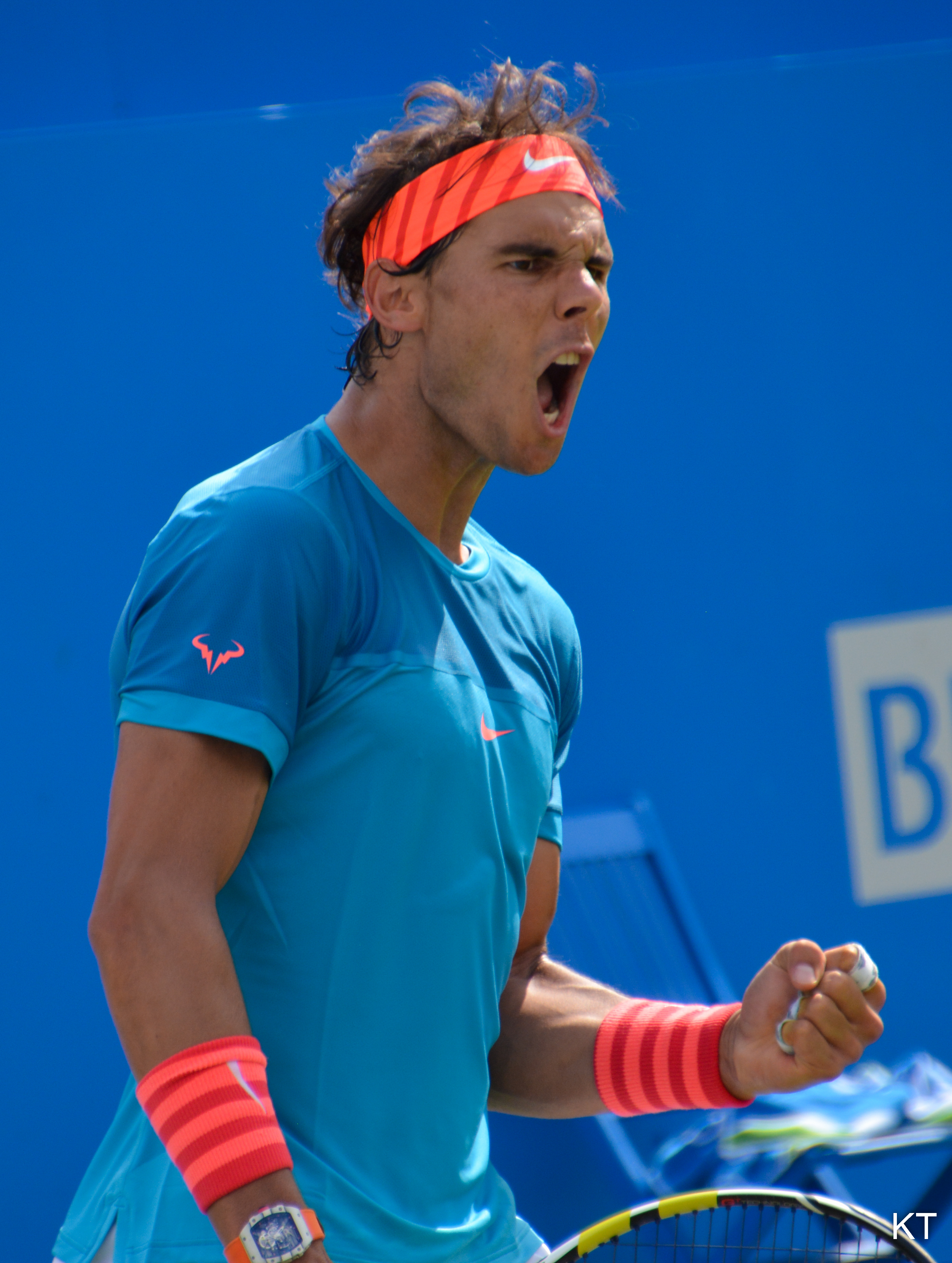 Aegon Championships, Queen's Club, June 2015.